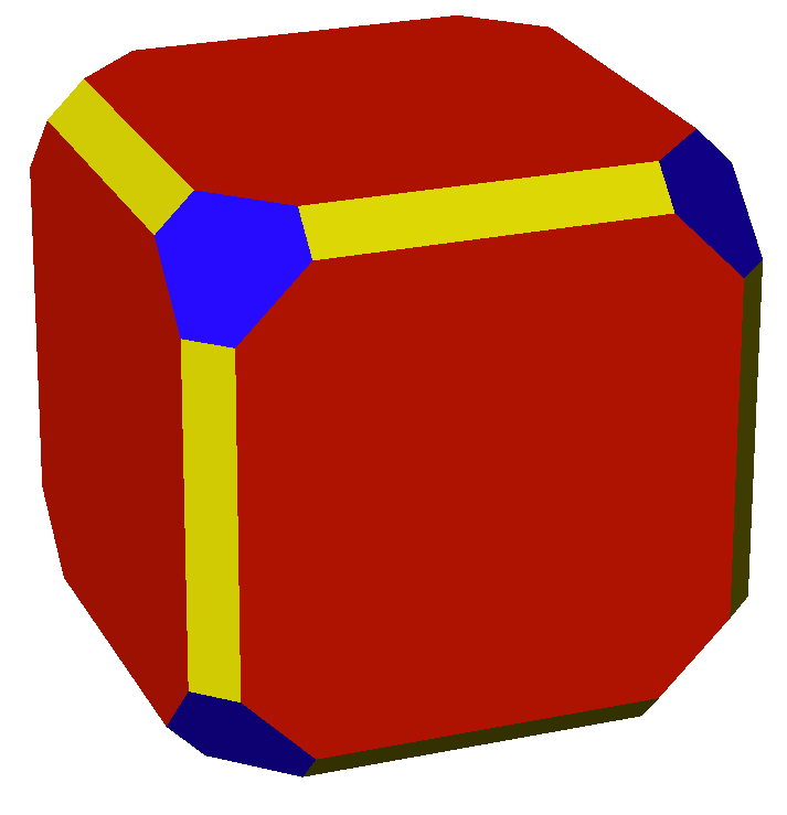 Example of isogonal figure